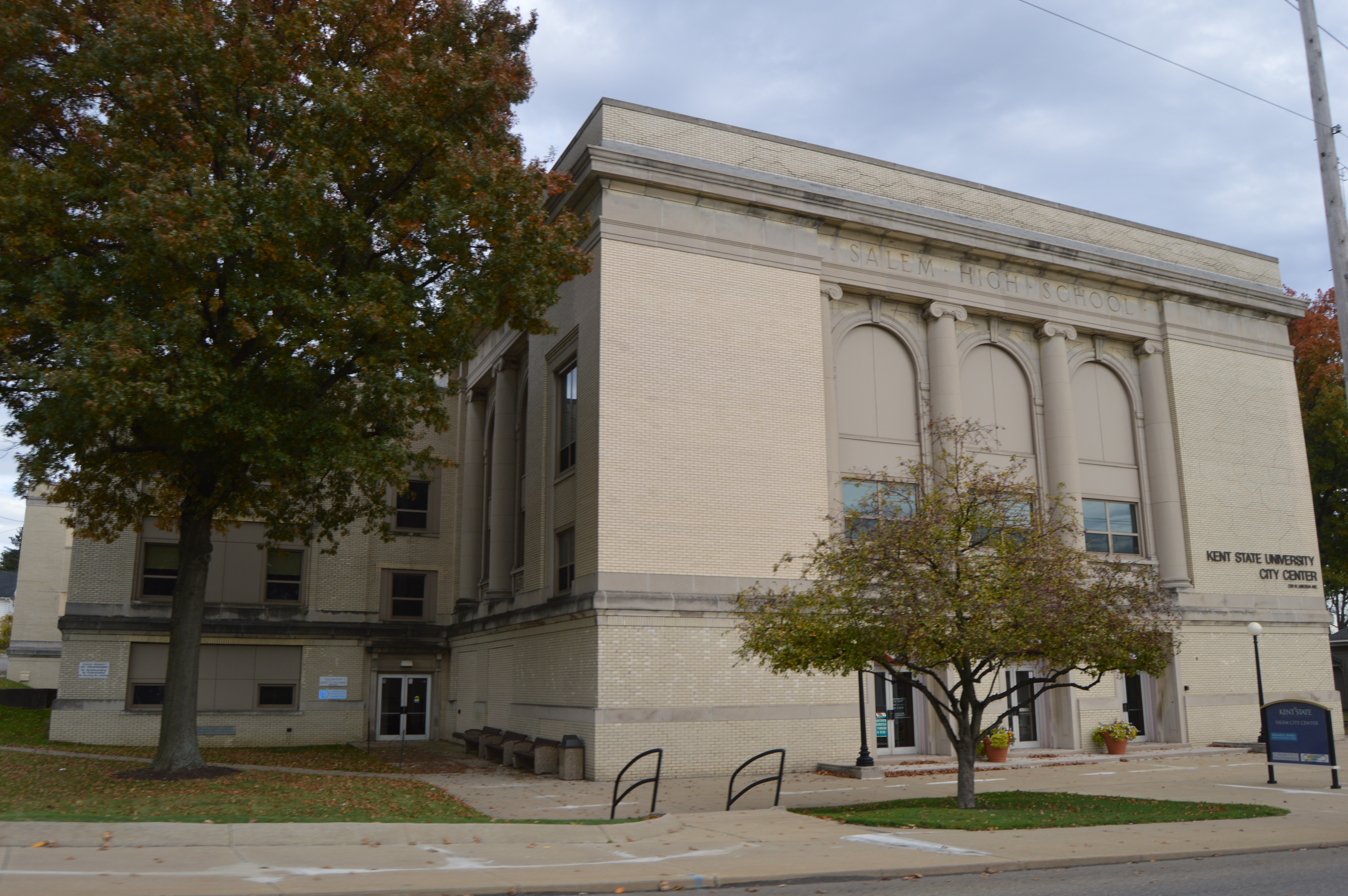 Front and northern side of the former Salem High School (now a Kent State University branch campus building), located at 230 N. Lincoln Avenue (State Route 9) in Salem, Ohio, United States.